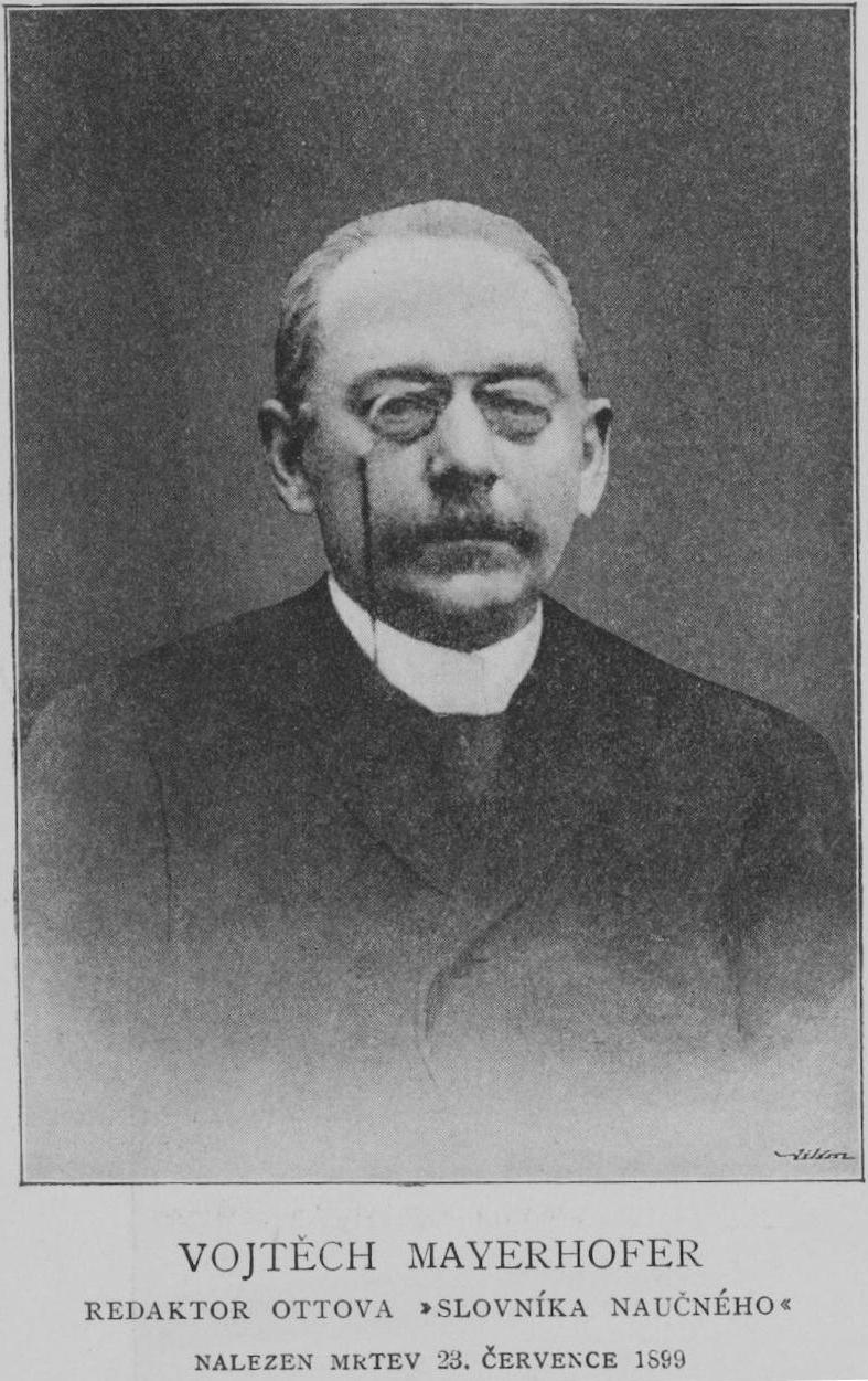 Portrait of Vojtěch Mayerhofer (1845 - 1899), Czech journalist and contributor to encyclopedias